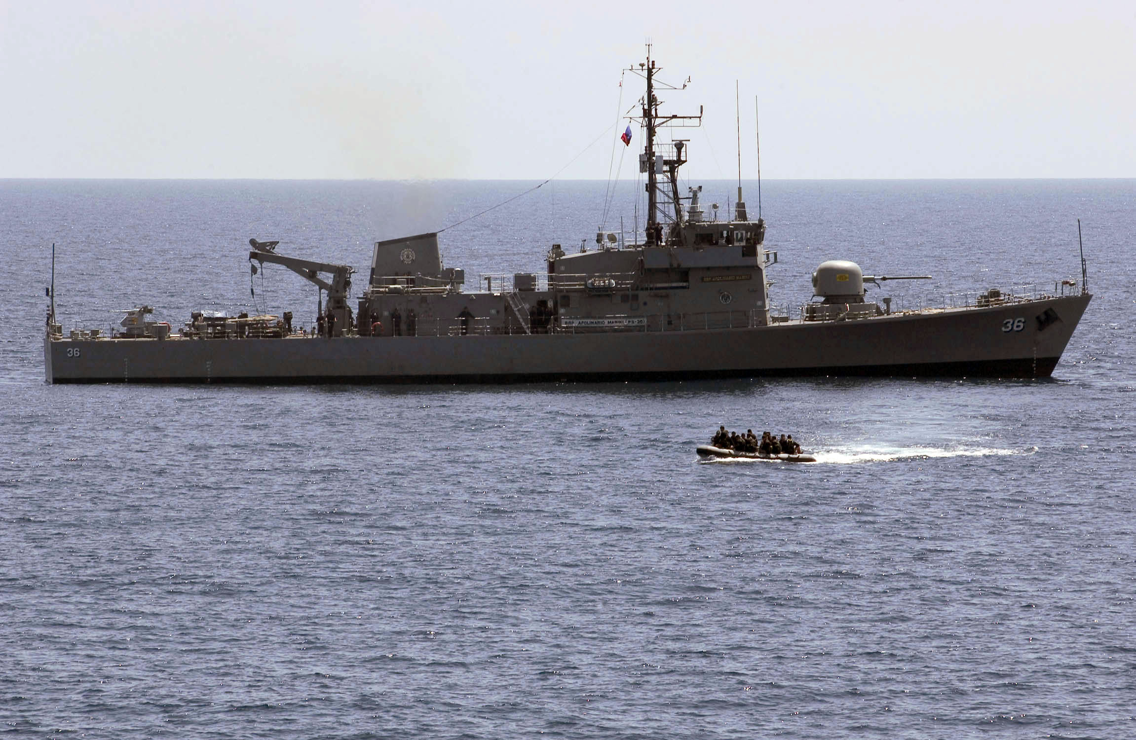 South China Sea (May 23, 2006) — A visit, board, search and seizure (VBSS) team from the Philippine Navy makes its way to the amphibious dock landing ship USS Tortuga (LSD 46) from the corvette Apolinario Mabini (PS-36) to carry out a boarding exercise. The boarding was a part of Southeast Asia Cooperation Against Terrorism (SEACAT) 2006, a week long at-sea exercise designed to highlight the value of information sharing and multi-national coordination within a scenario that gives participating navies practical maritime interception training opportunities.